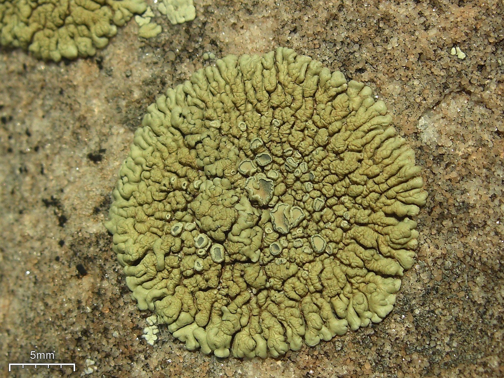 The lichen Lecanora garovaglii (Körber) Zahlbr.; photographed in